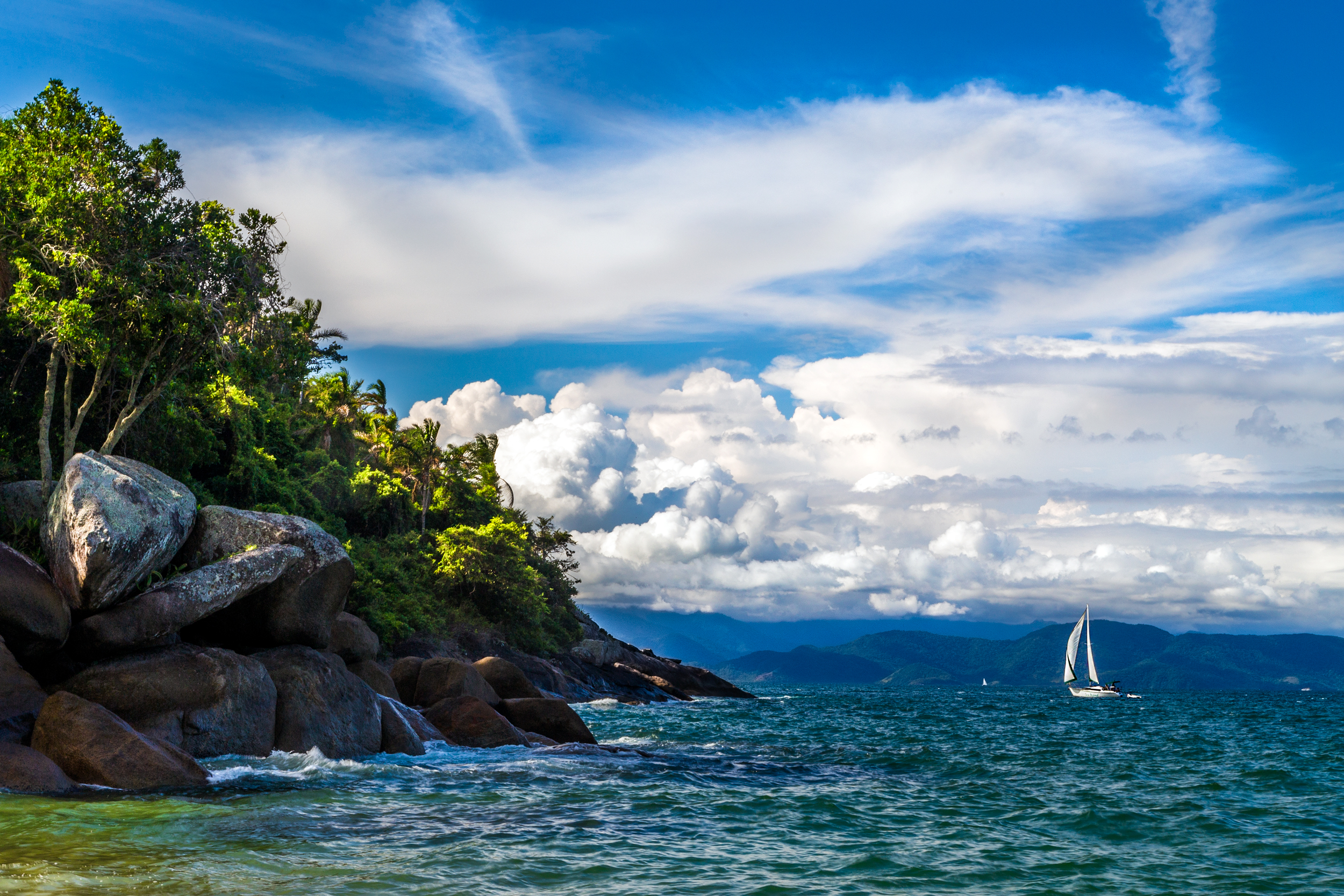 In "Praia da Feiticeira" beach, in Ilhabela (Brazil), a large boat seems to sail among the clouds.